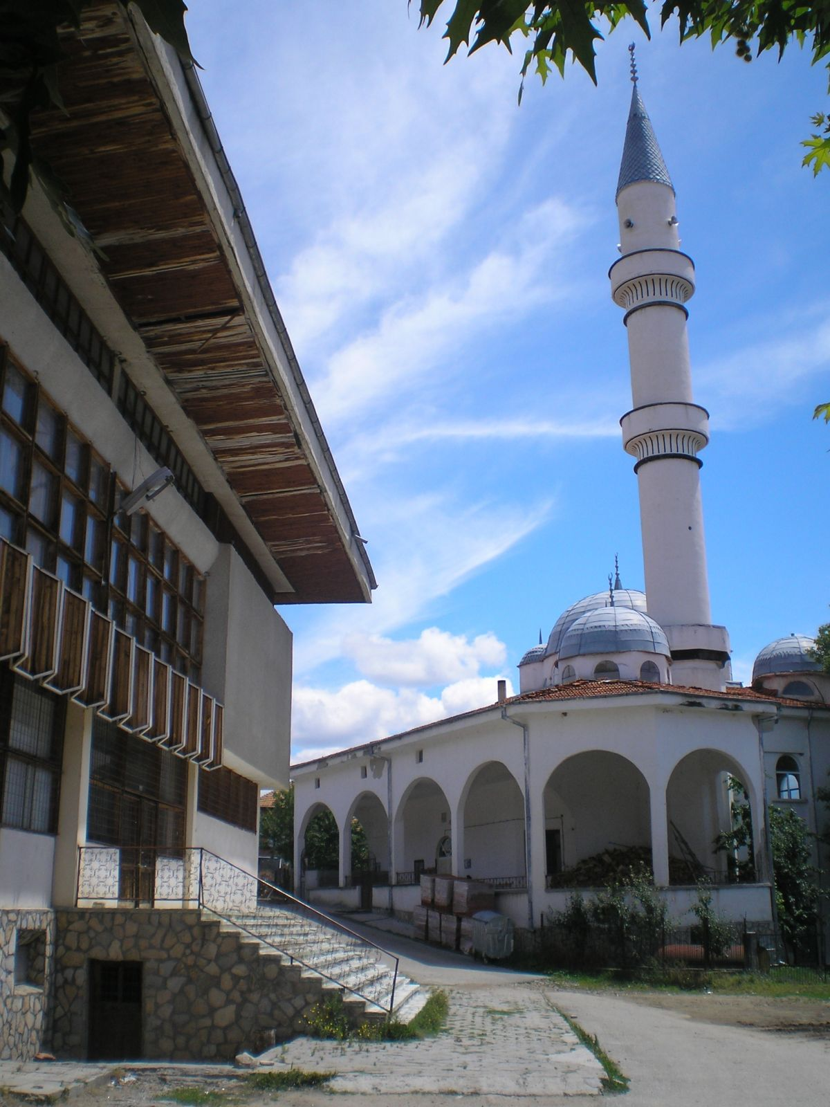 mosque Valkosel